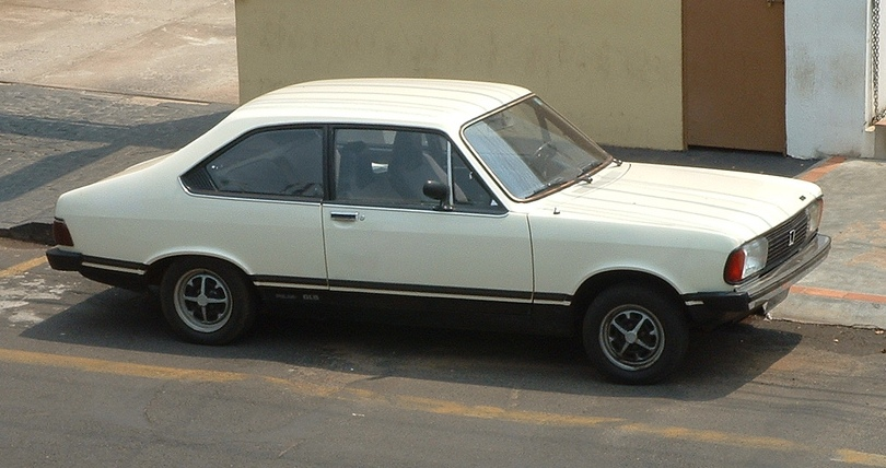 A rare Dodge Polara GLS. This car is based on the British Chrysler Avenger, produced in Brazil and this version, GLS, was produced only in 1980 and 1981.